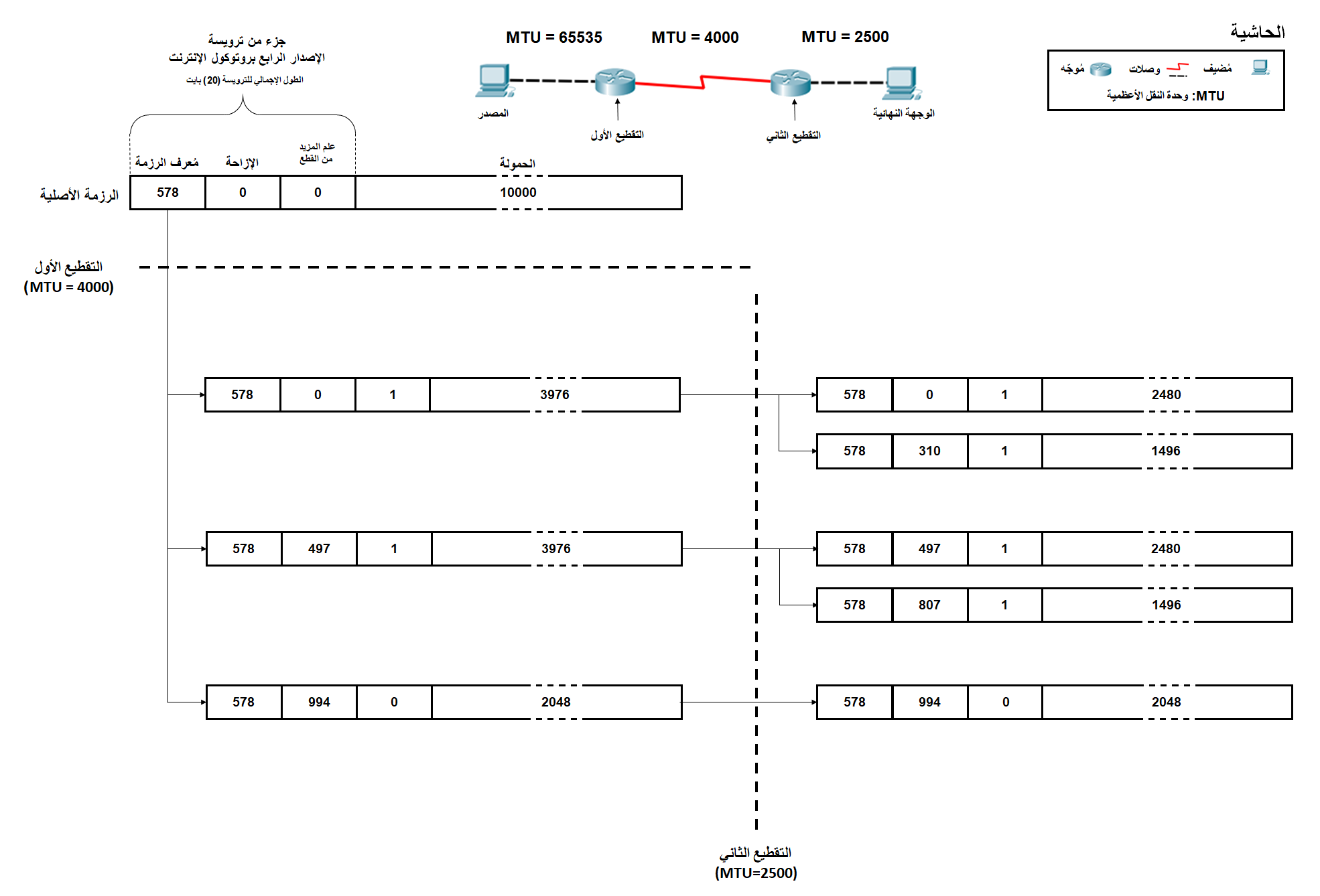 An example of IPv4 multi-fragmentation. The fragmentation takes place in two level. In the first one, The maximum transmission unit is 4000 bytes, and the second it is 2,500 bytes.